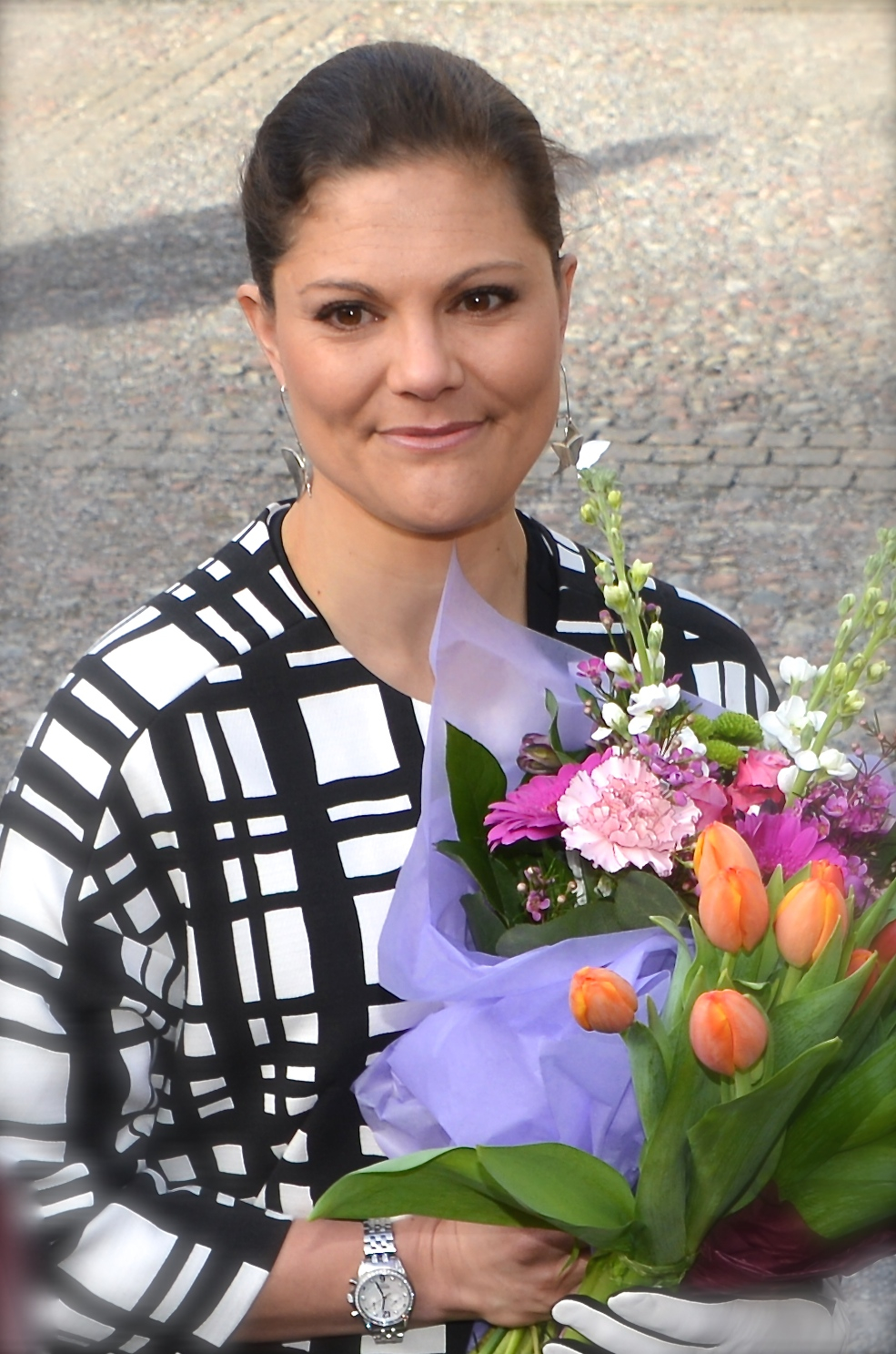 Crown Princess Victoria is congratulated on her name day in the inner courtyard at the Stockholm Palace on March 12, 2014.